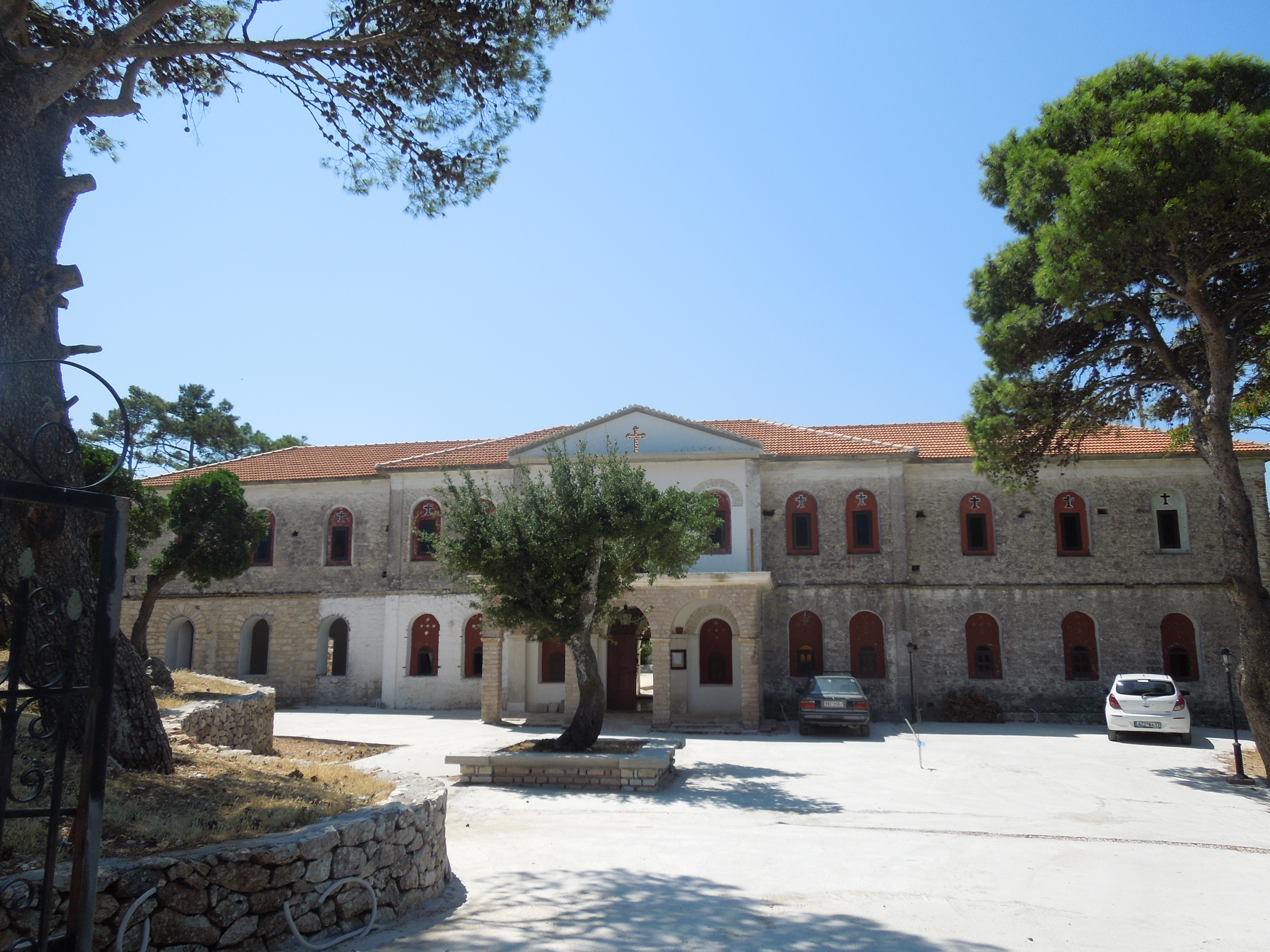 The old Kathara monastery ("Moni Katharon") on the Greek island of Ithaca